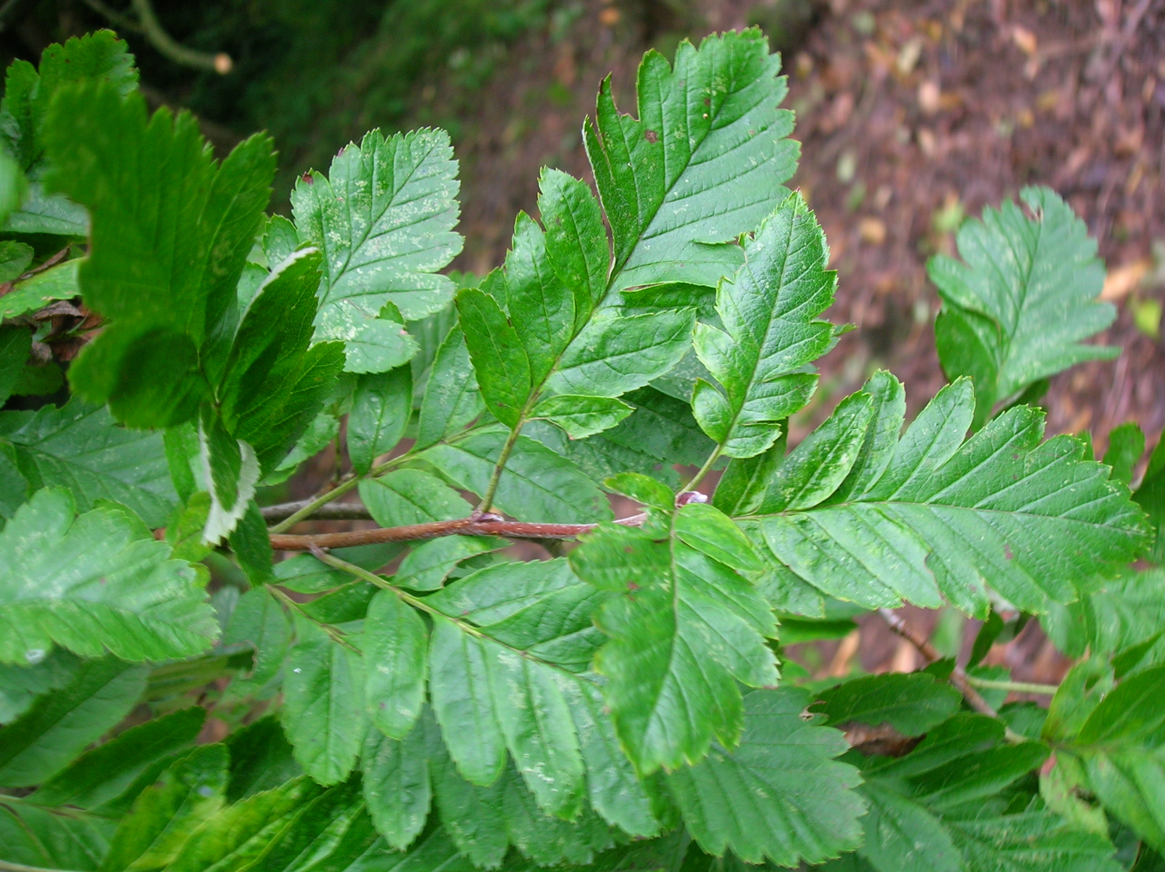 Detail of the leaves of Sorbus pseudofennica, Spier's Old School Grounds, Beith, Ayrshire, Scotland.